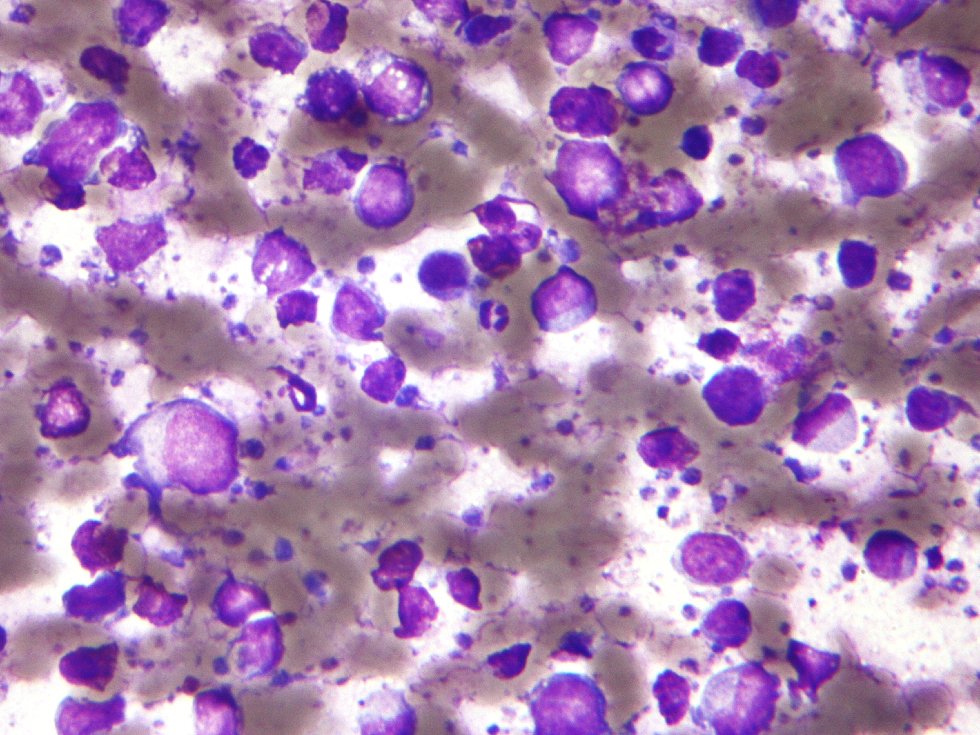 Micrograph of a large B cell lymphoma. Lymph node FNA specimen. Field stain. See also Image:Diffuse large B cell lymphoma - cytology low mag.jpg - lower magnification.